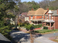 Fortwood looking down Oak Street